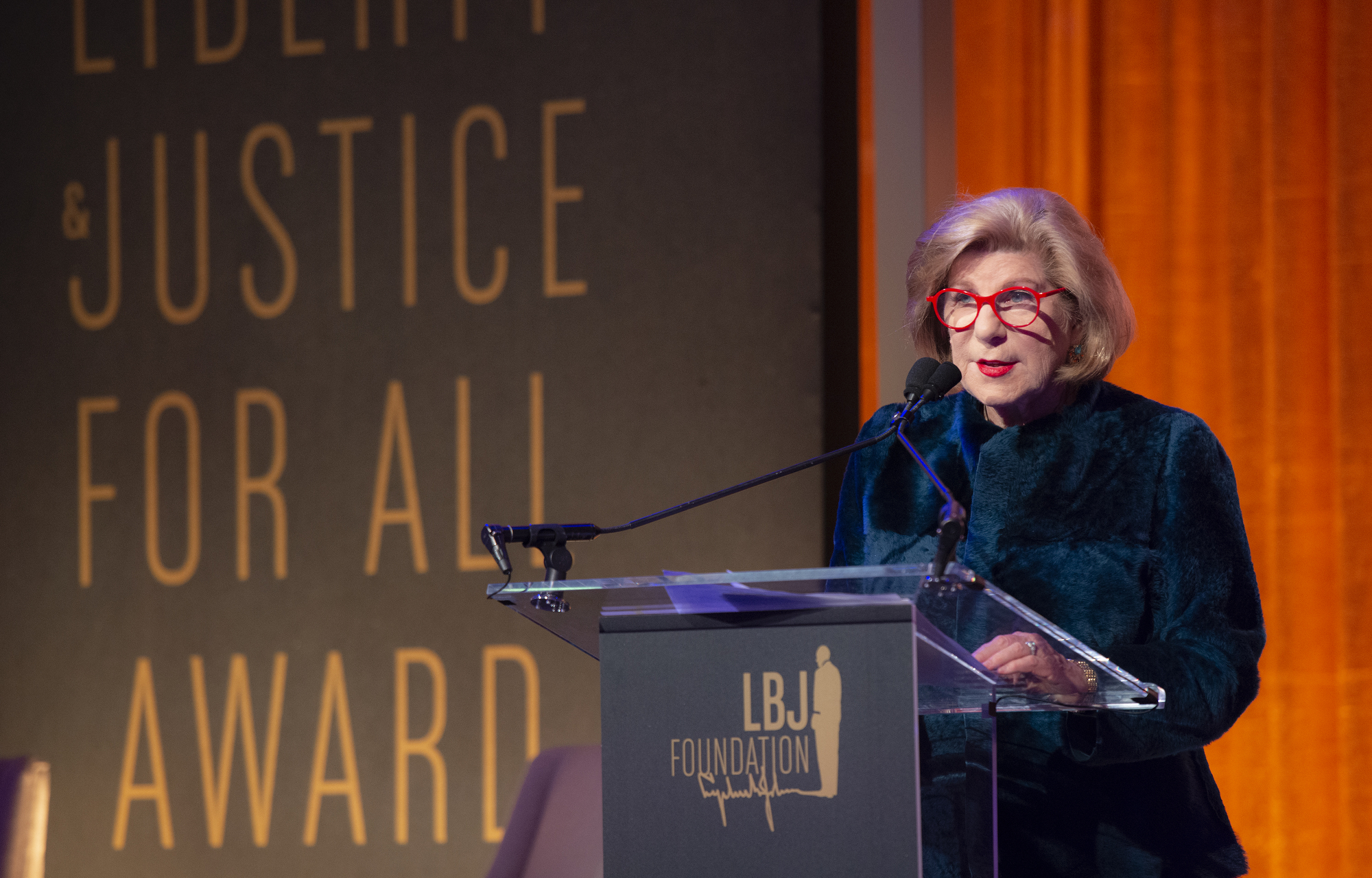 Nina Totenberg, legal affairs correspondent for NPR, serves as master of ceremonies during a tribute to U.S. Supreme Court Justice Ruth Bader Ginsburg at the Library of Congress in Washington, D.C. on Jan. 30, 2020.